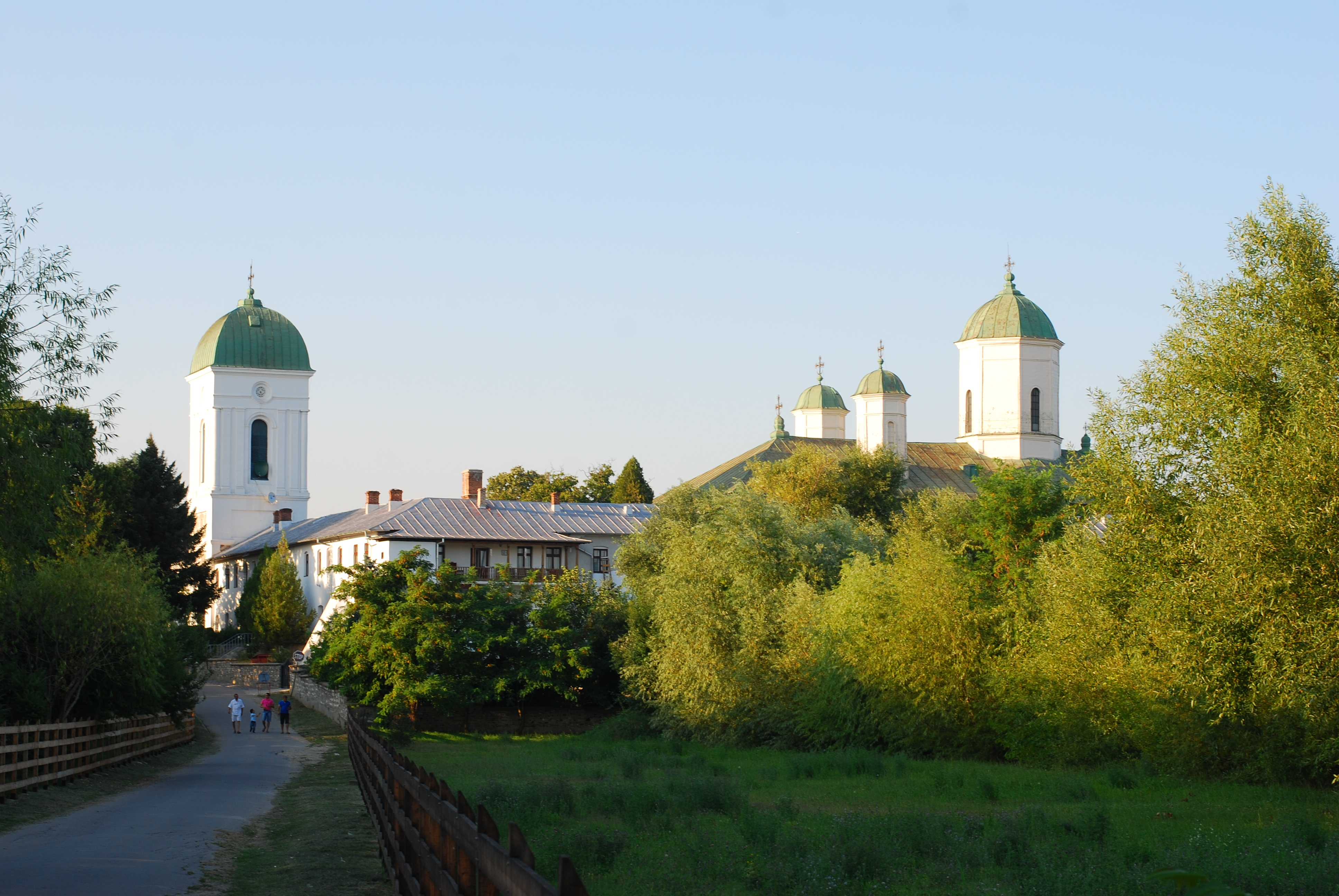 Cernica monastery in Pantelimon, Ilfov County, Romania, seen from the island on Cernica lakeRomână: Mănăstirea Cernica din Pantelimon, judeţul Ilfov, România, văzută de pe ostrovul de pe lacul Cernica